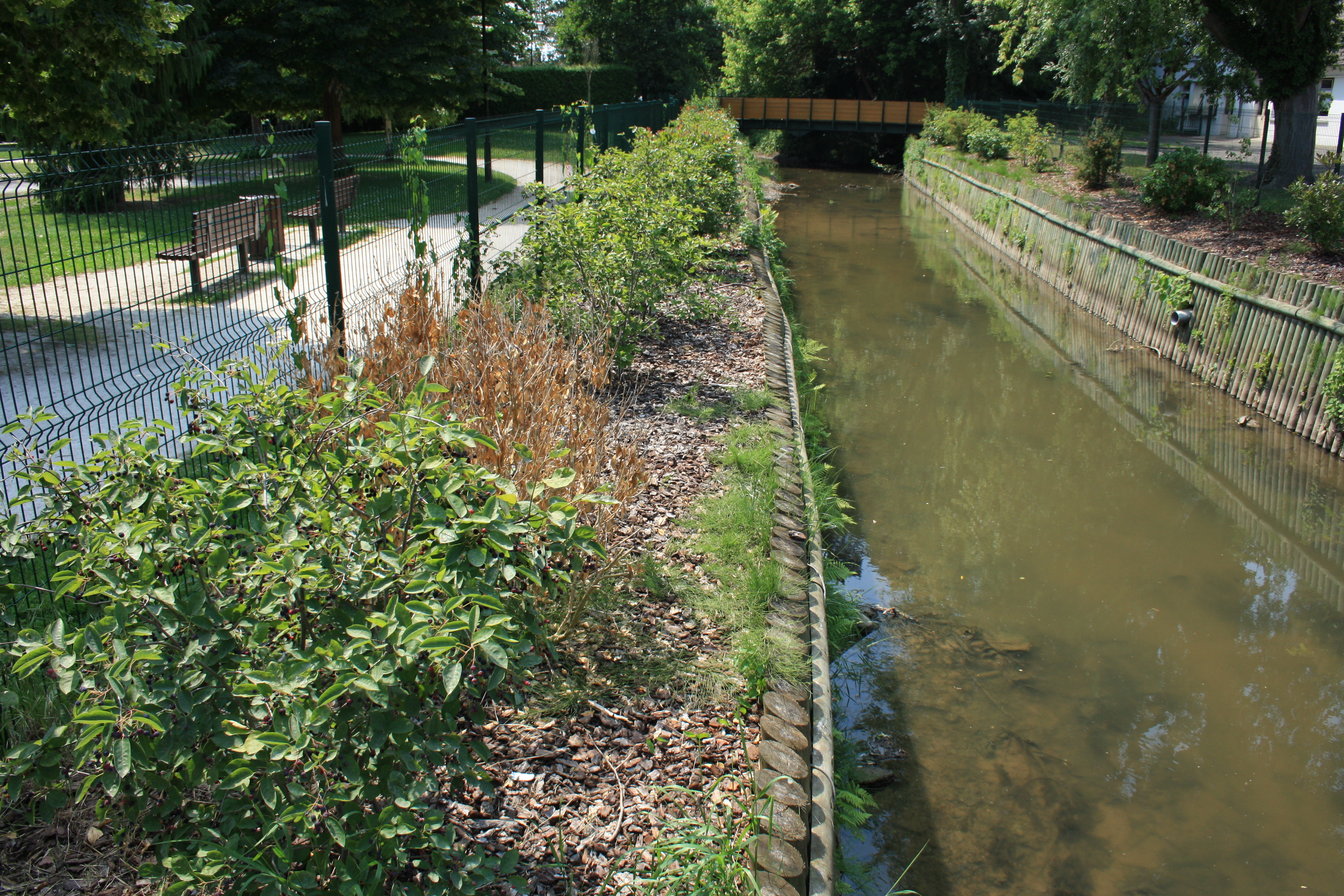 Yvette River in Saint Rémy lès Chevreuse, France